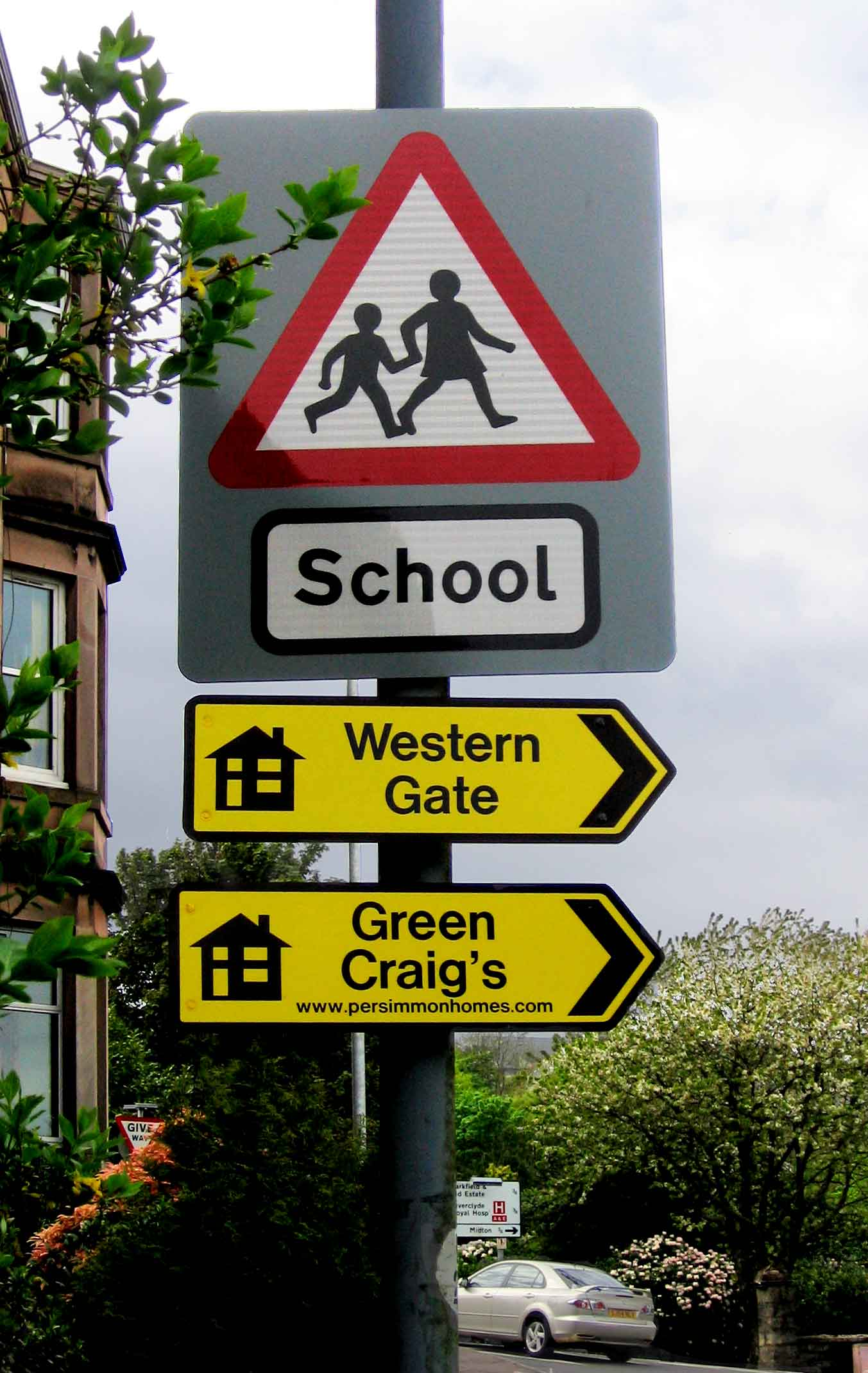 Sign to Green Craig's, Gourock, demonstrating greengrocers' apostrophe